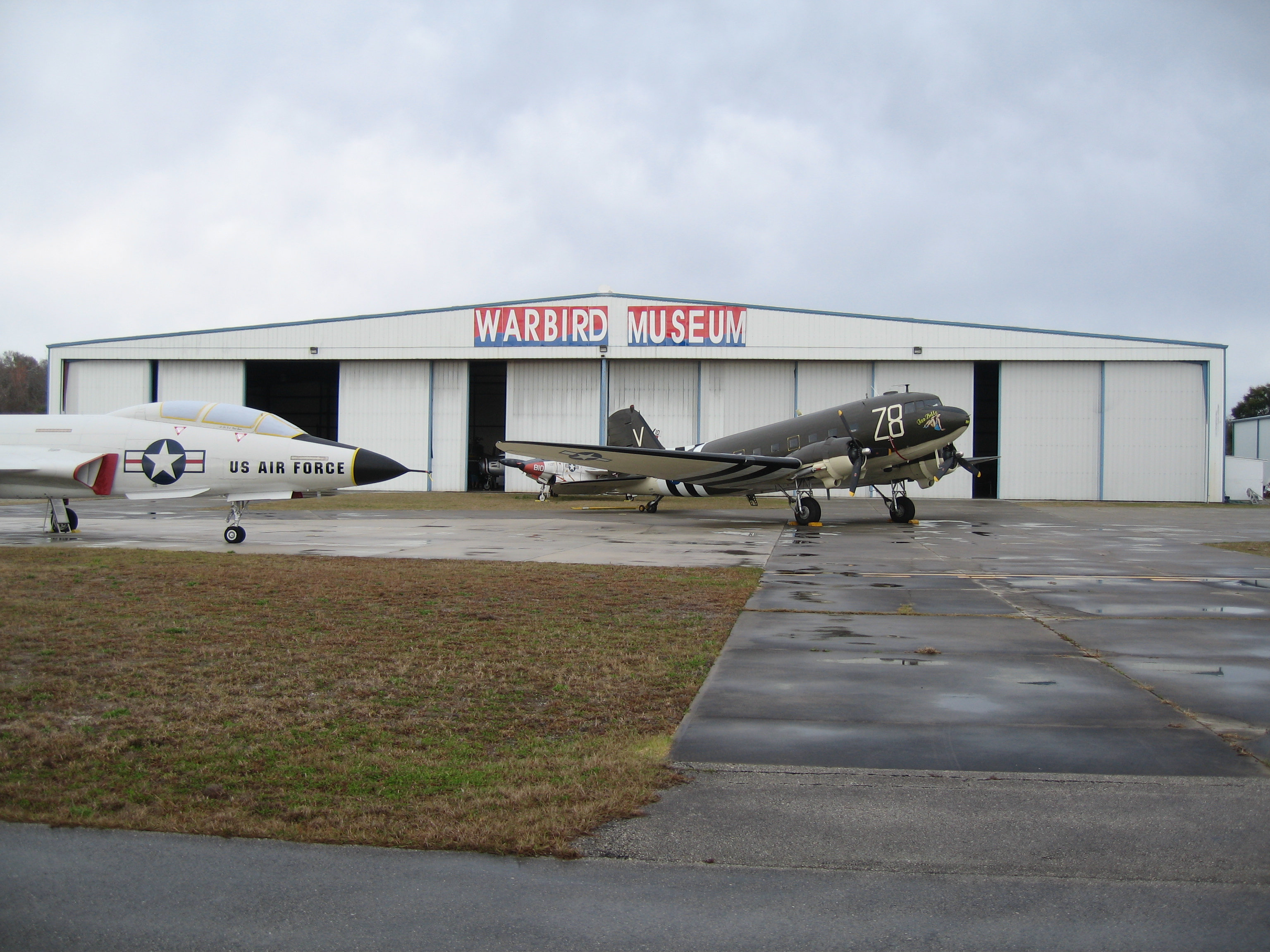 Rear of the Valiant Air Command Warbird Museum, 6600 Tico Road, Tituville, Florida. A C-47 Skytrain in view. The museum is located at the Space Coast Regional Airport.